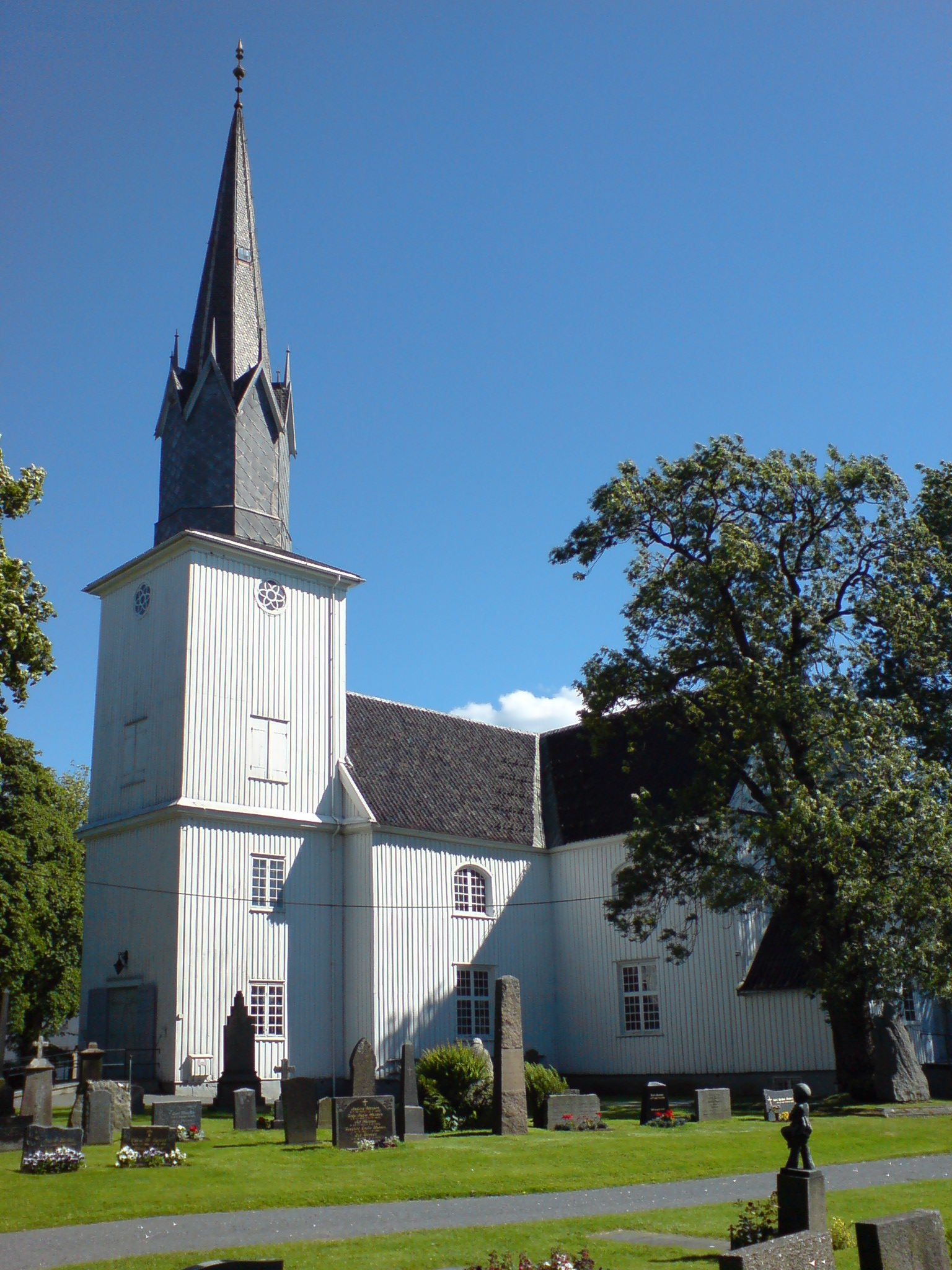 Sandar Kirke in Sandefjord, Norway